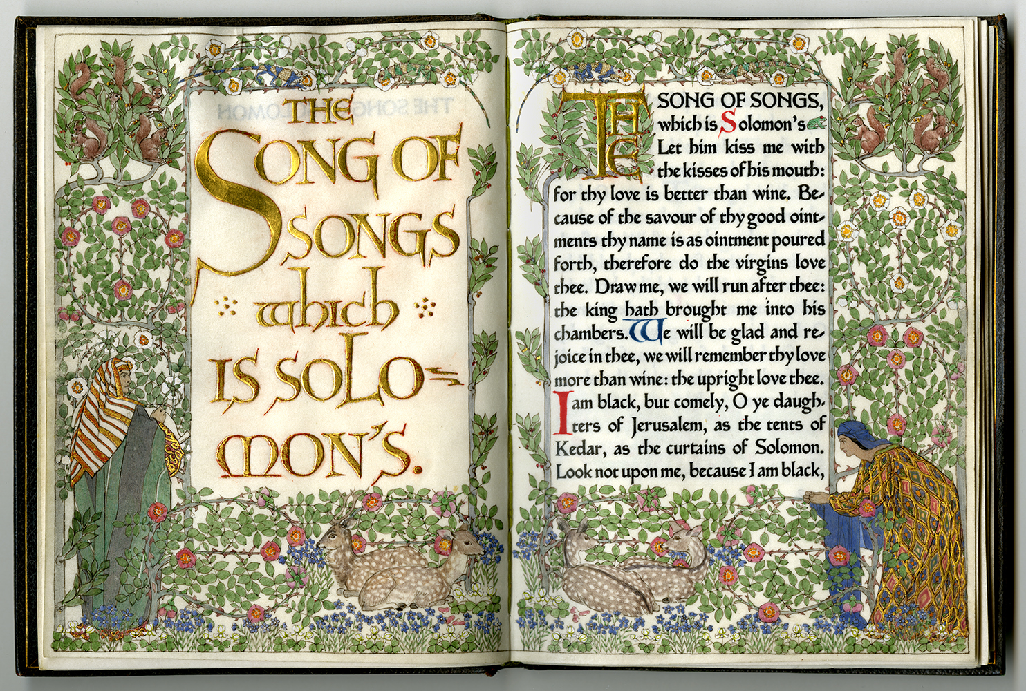 Bridwell Library’s copy of the Ashendene Song of Songs, illuminated by Florence Kingsford and bound by Katharine Adams, was the publisher Hornby’s personal copy. Kingsford’s painted border, encompassing the printed text and Graily Hewitt’s gilded lettering, depicts King Solomon at the left and his beloved companion at the right, both surrounded by the richly varied flora and fauna of the biblical text.